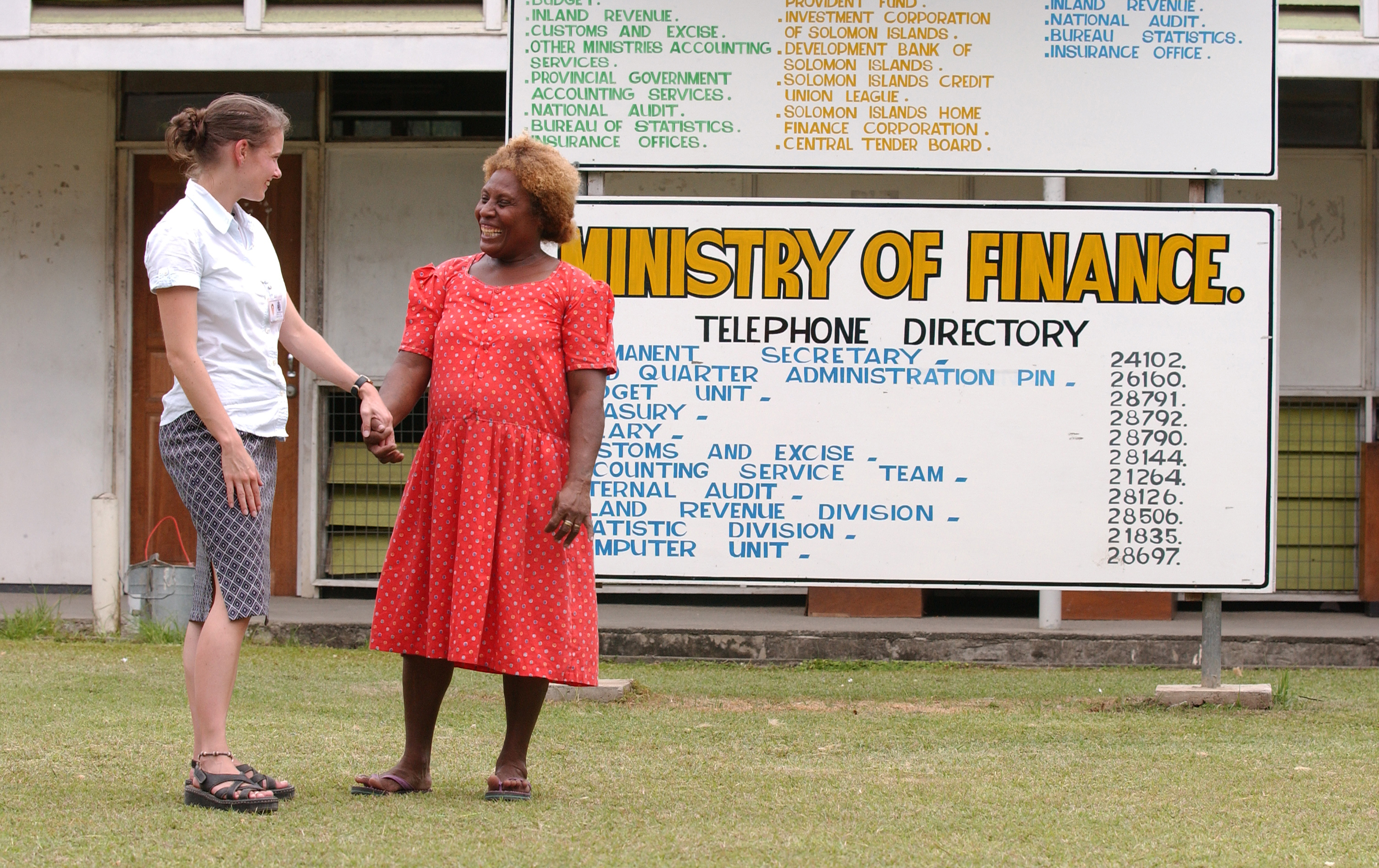 RAMSI adviser Sally Taylor with Ruth Gilbert from the Solomon Islands Ministry of Finance. ‘At the same time that RAMSI police and military were working with the Royal Solomon Islands Police Force to restore law and order, a team of civilian advisers began work with Solomon Islands Ministry of Finance to help stabilise the government’s finances'. (RAMSI brochure). - RAMSI Public Affairs hi-res version from: db.tt/68crbb4F